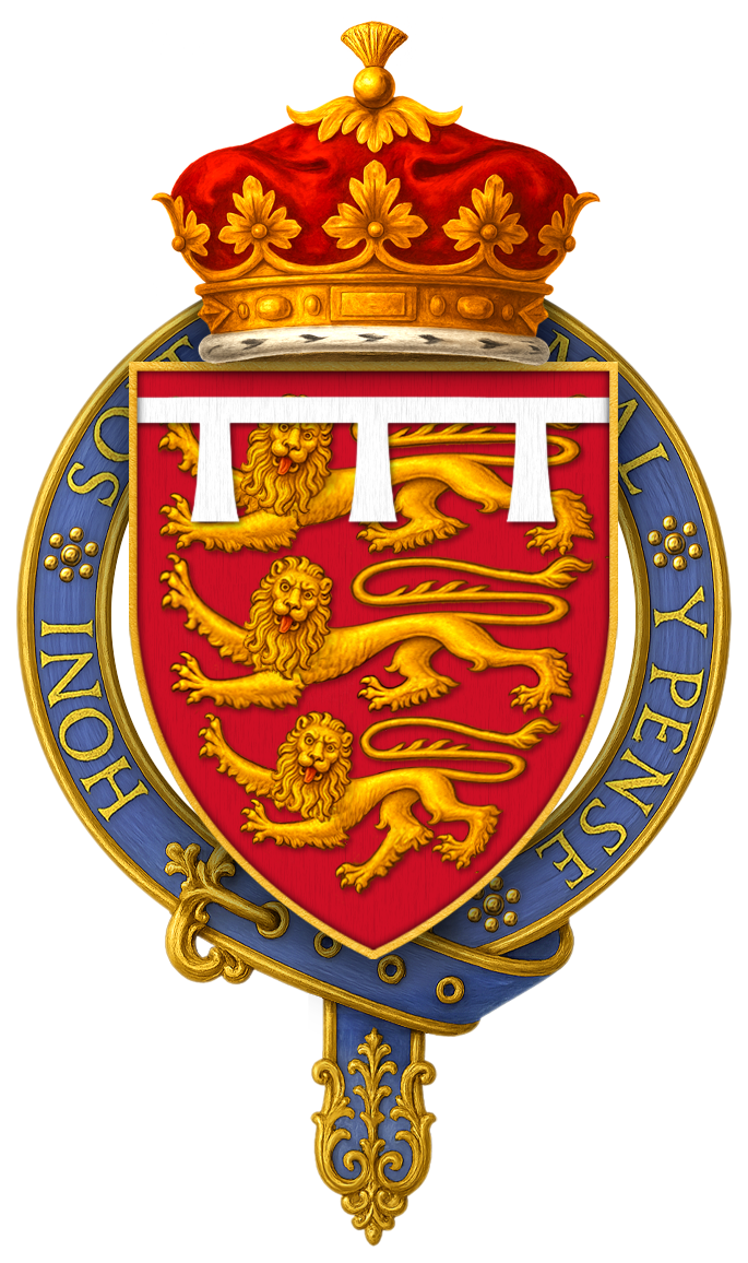 John de Mowbray, 4th Duke of Norfok, KG